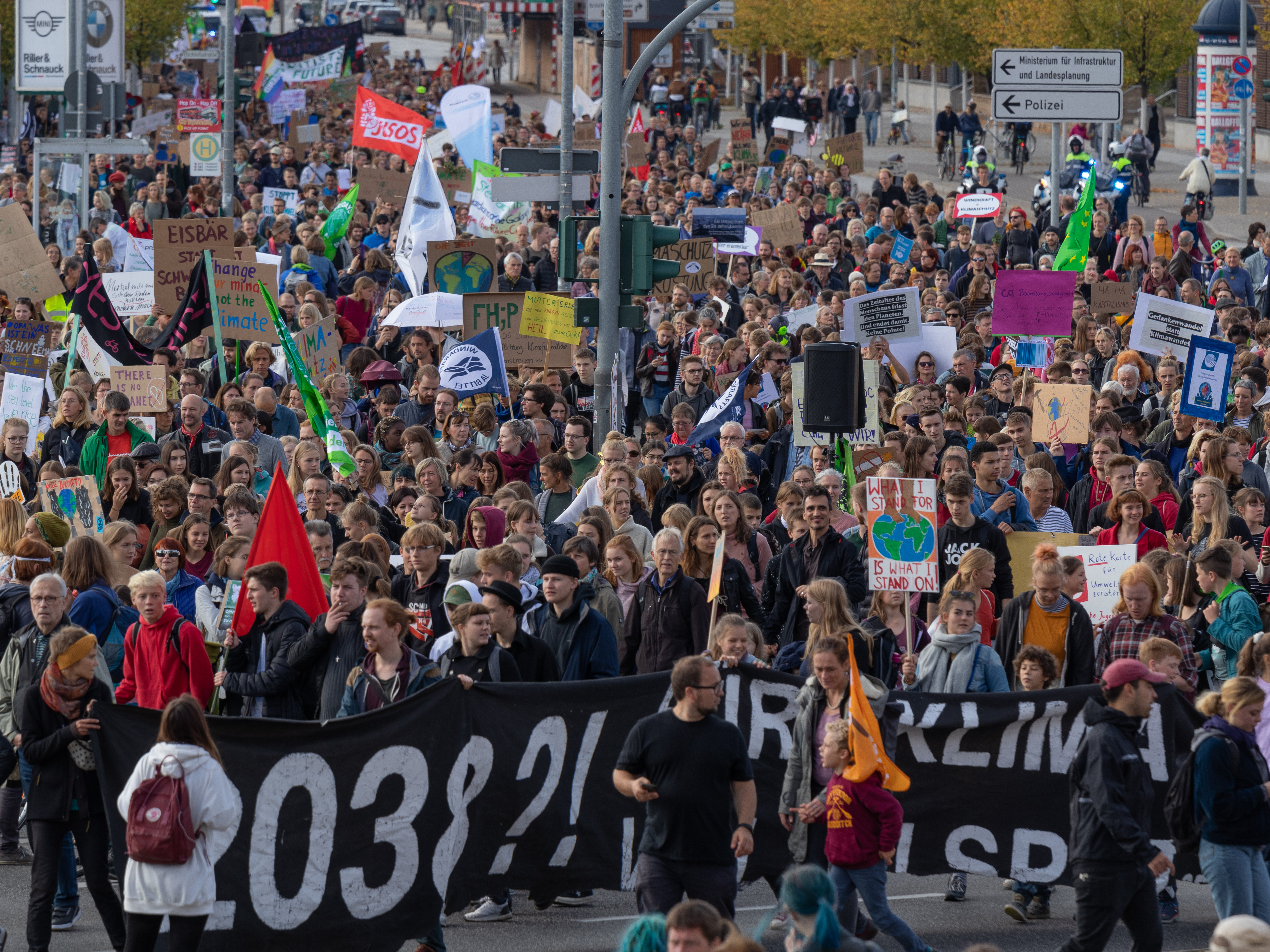 Global Climate Strike in Germany on 20 September 2019